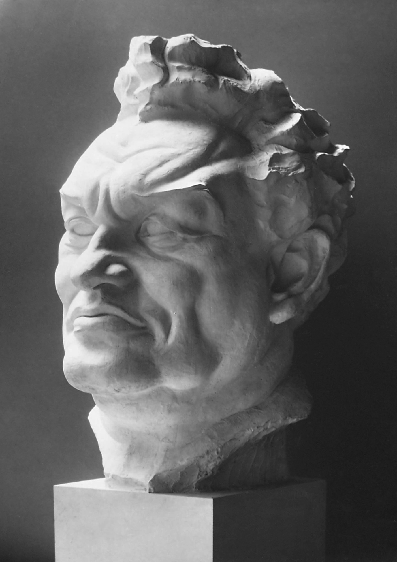 Stone portrait of the eccentric american artist Robert "Sherriff Bob" Winthrop Chanler, realized in 1925-28 by a friend of his, the american sculptor Cecil Howard.